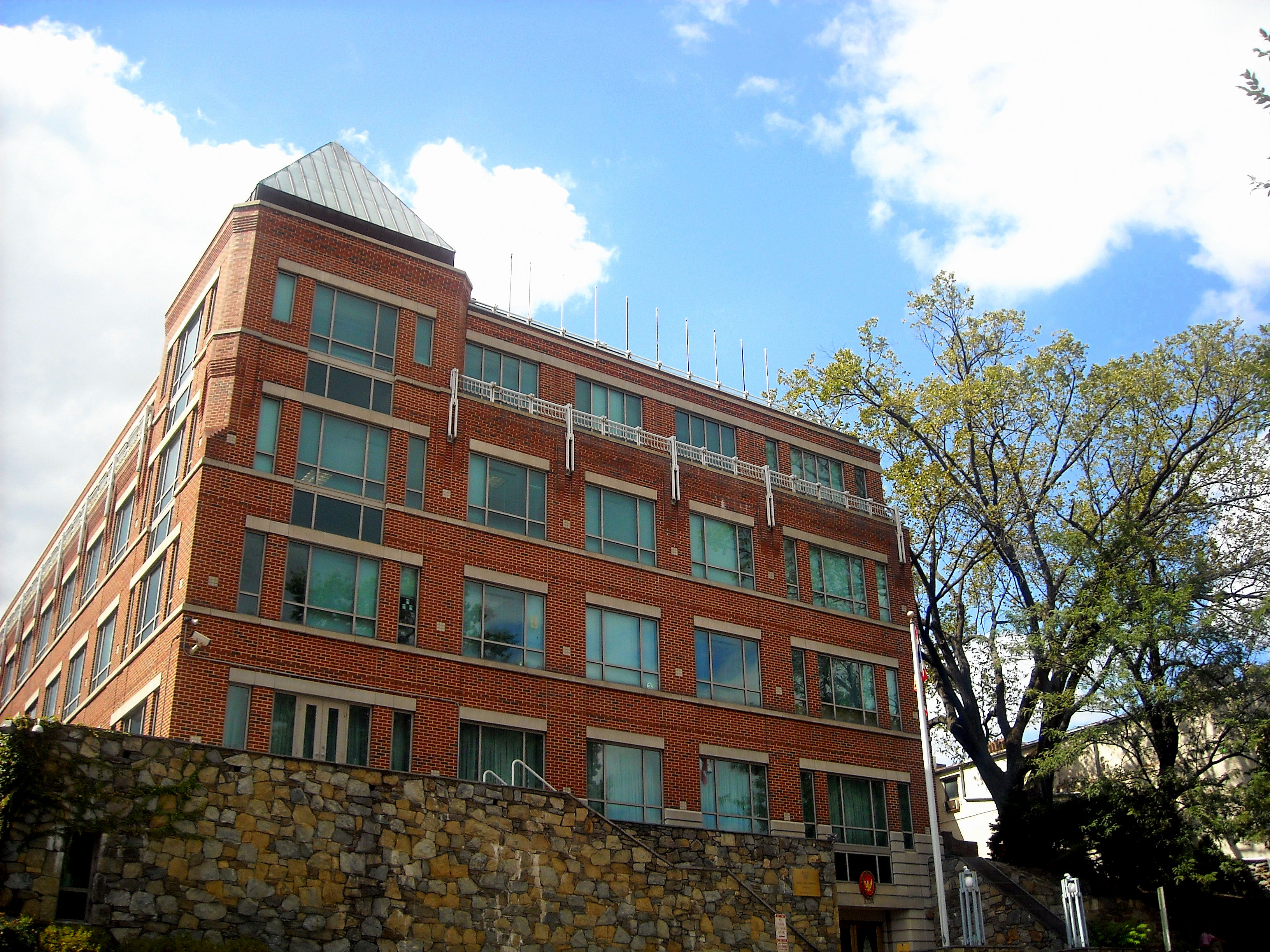 Embassy of Thailand in Washington